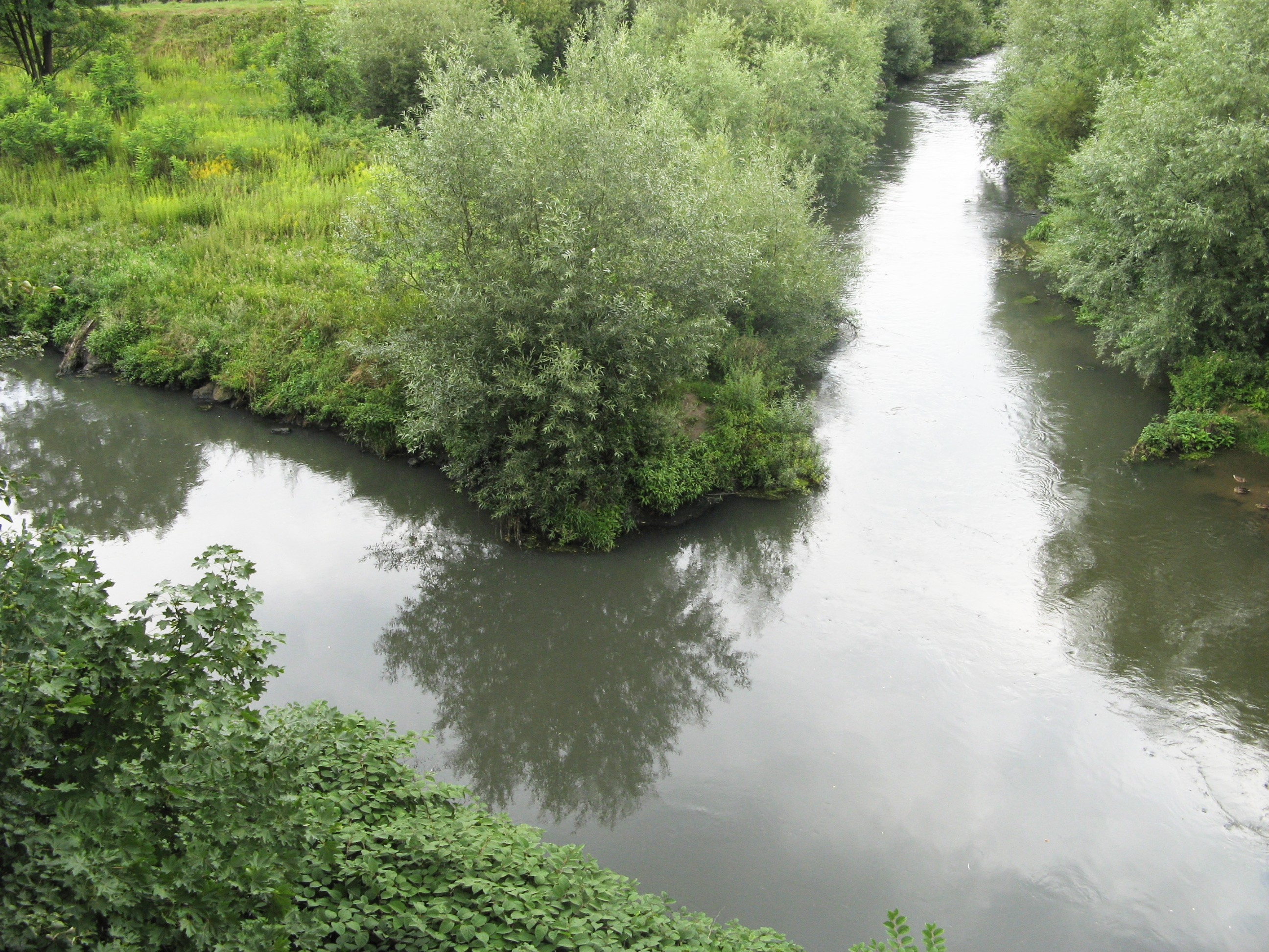 Triangle of three emperors. Confluence of Black Przemsza river (left) and White Przemsza river (right) into the Przemsza river. Befor the WWI there were borders of three empires - German (left), Austrian (right) and Russian (between both the rivers). This place is southern from Mysłowice town